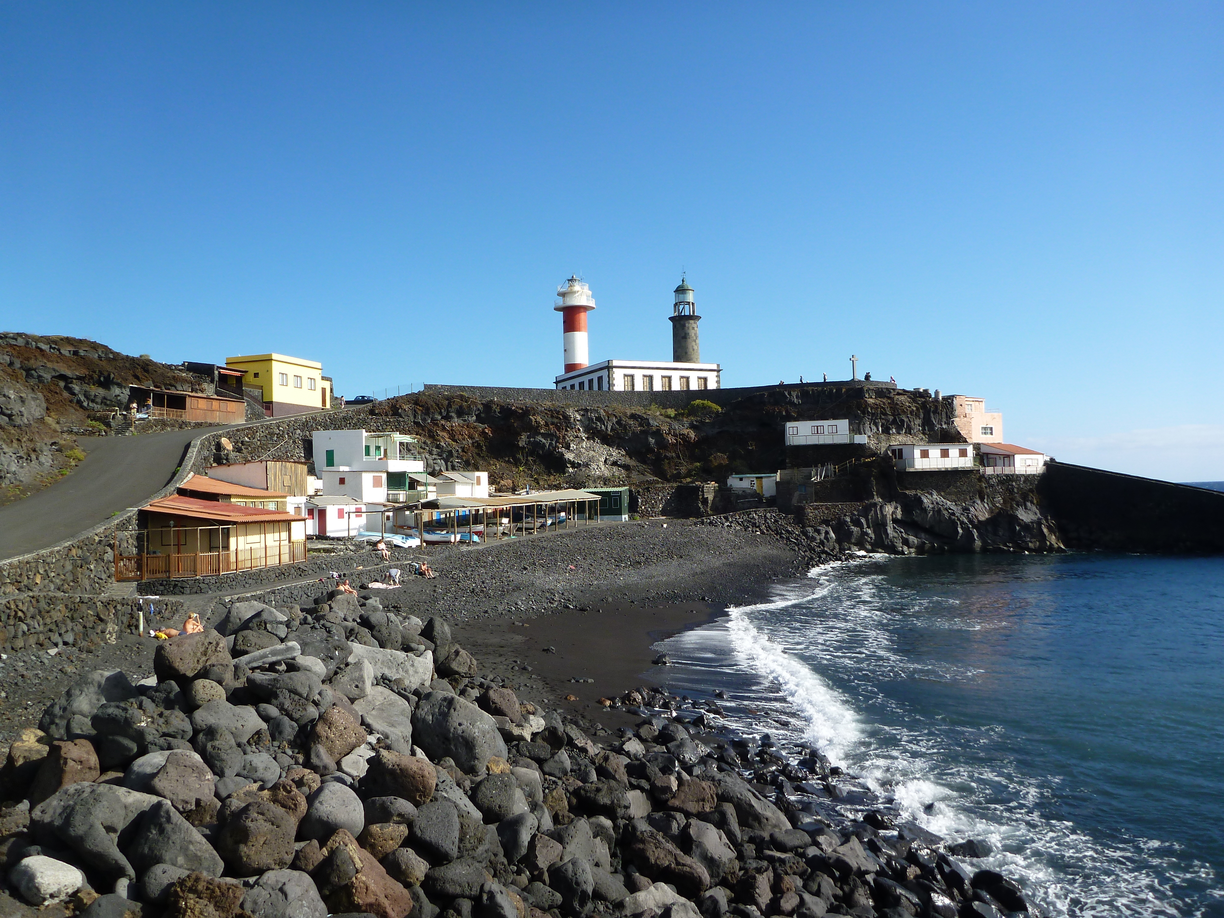 New and old lighthouse Punta de Fuencaliente from beach